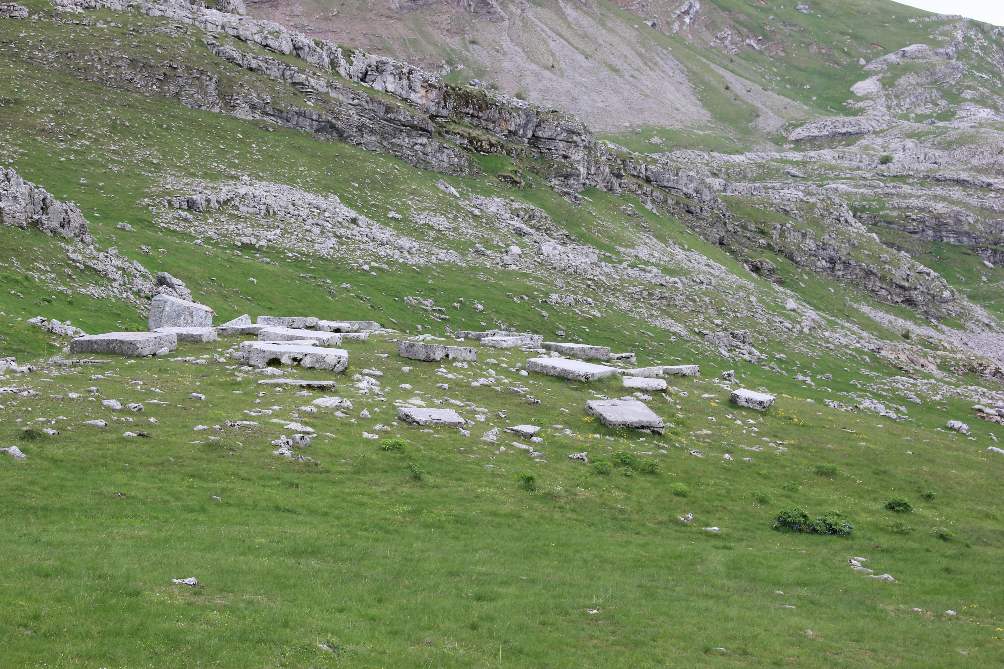 Poljice necropolis north of Odžaci, Konjic Municipality, Bosnia.